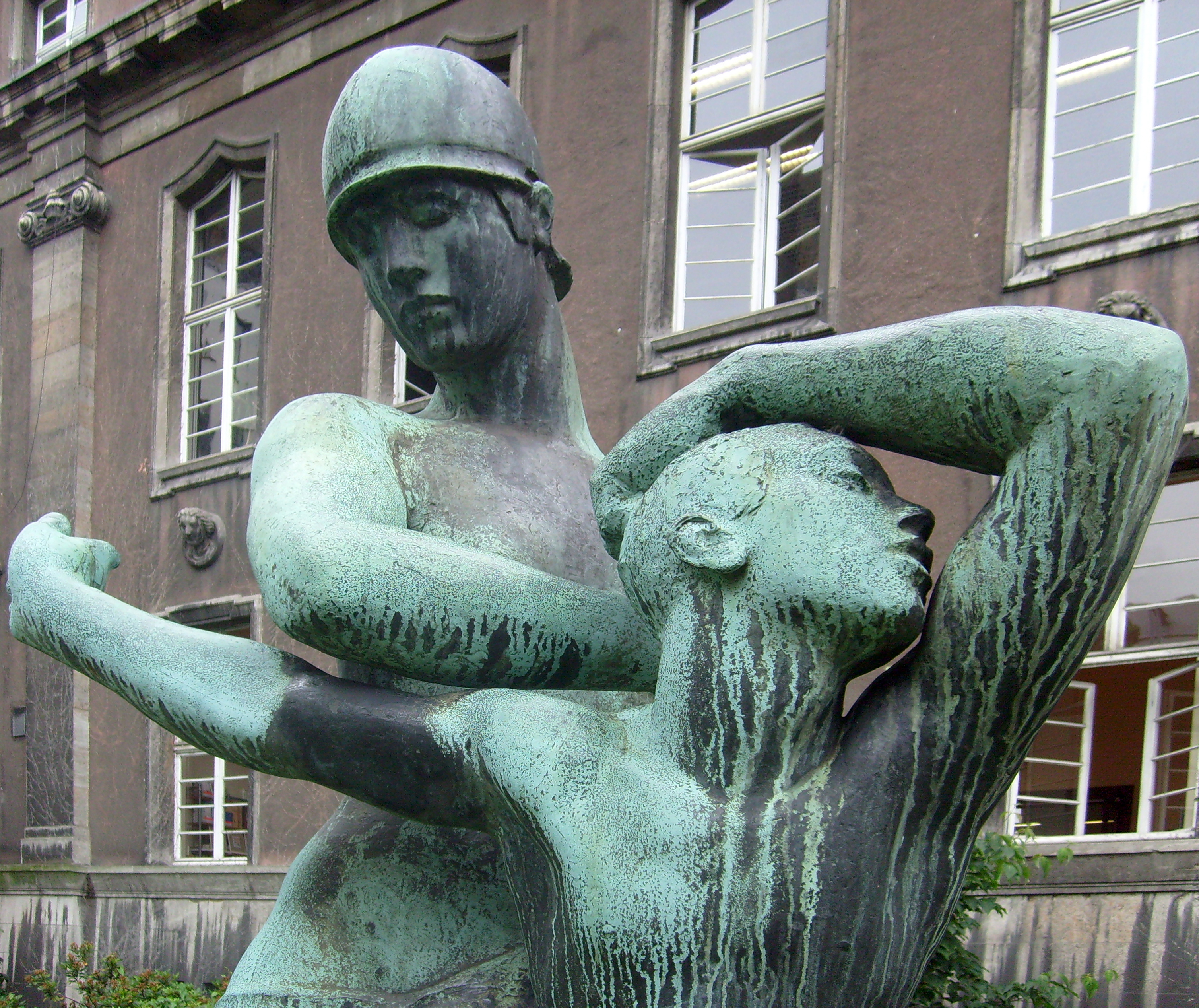 Bellona sculpture from Georg Kolbe at Wuppertal (Germany)